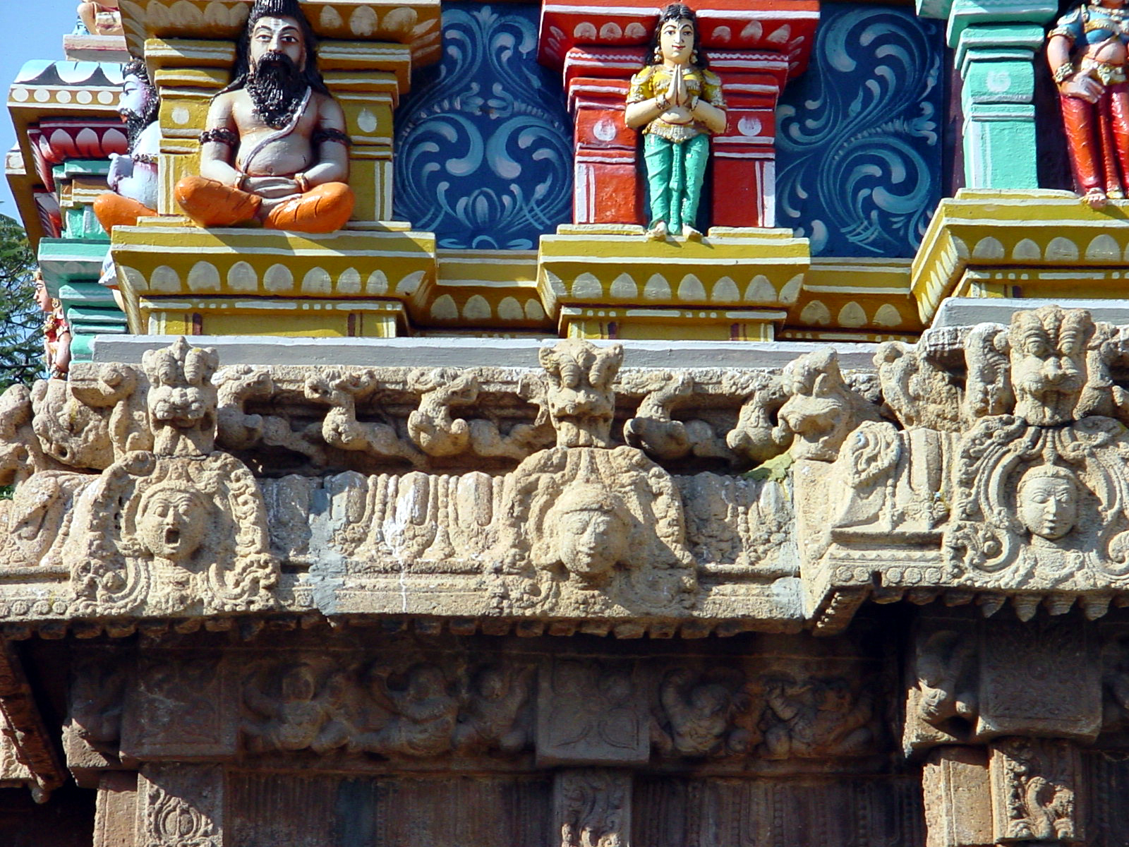 Detail from the left corner of the corniche. Nayaka, Venugopala Shrine, 17th century. Ranganatha Temple, Srirangam